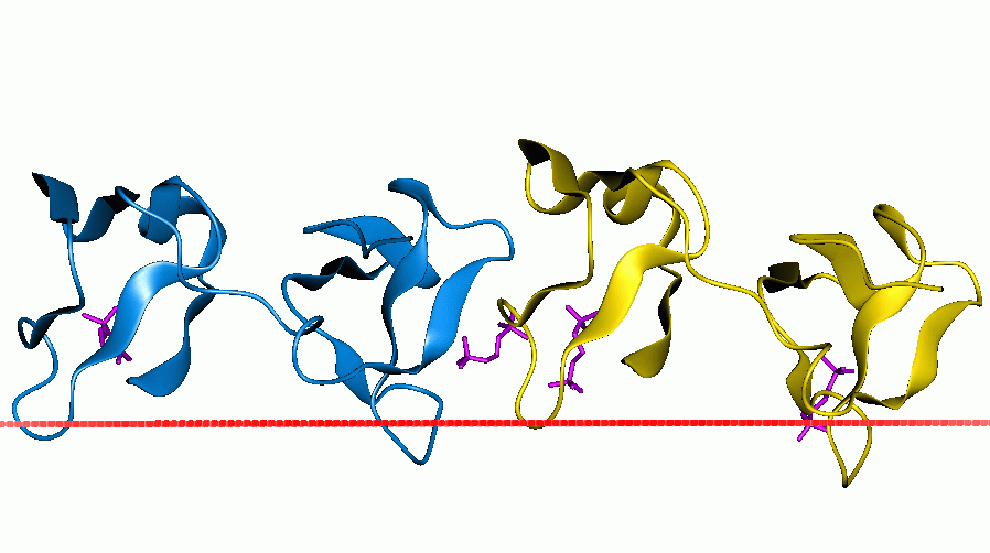 Protein image from OPM database